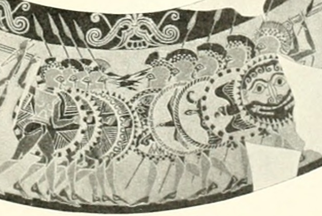 Detail of the Chigi Vase (c. 650/640 BC) depicting hoplites in action.